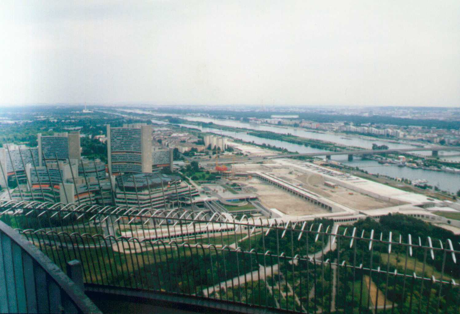 Construction site of the "Donaucity" in Vienna, July 1996. Picture taken from the "Donauturm".